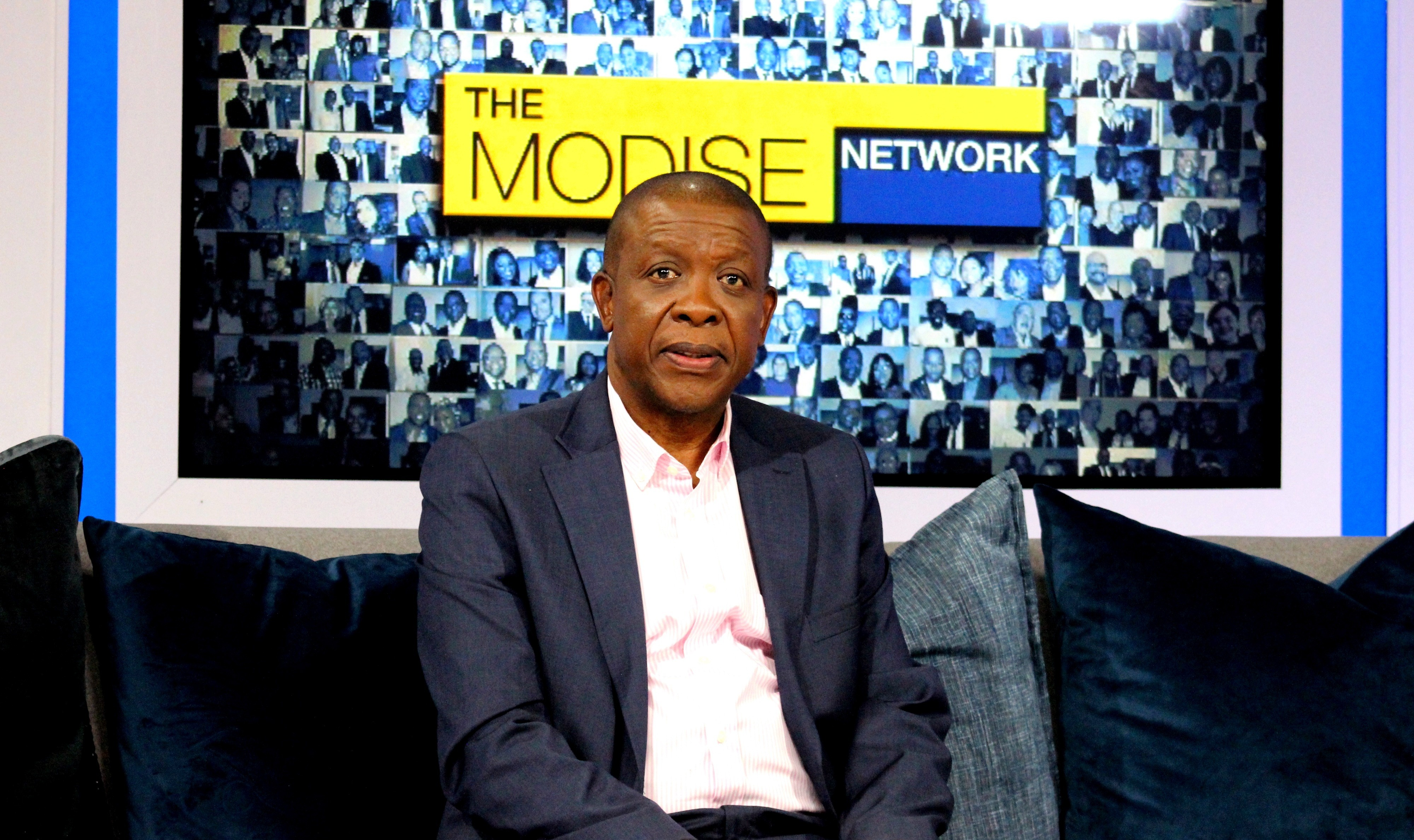 Tim Modise presenting one of his talks shows on South African television. This image was taken at the eNCA Studios in Hyde Park, Johannesburg.